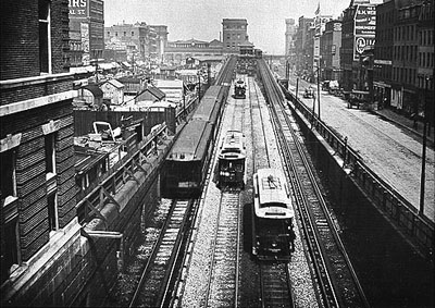 Source caption: A three-car El train descends into the subway on July 19, 1901. This view looks north from Haymarket Square towards the North Station elevated station